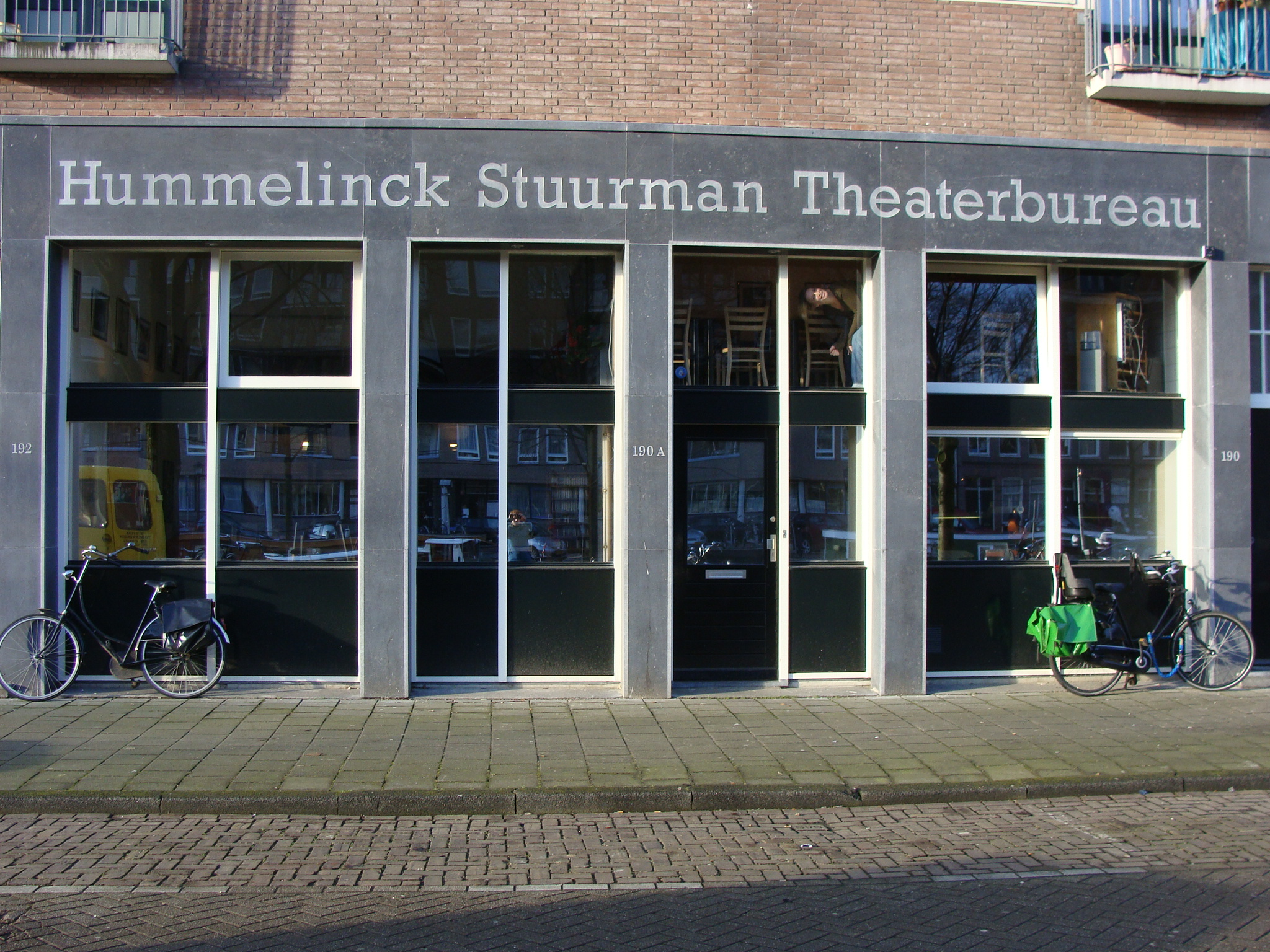 The office of Hummelinck Stuurman Theaterbureau in Amsterdam